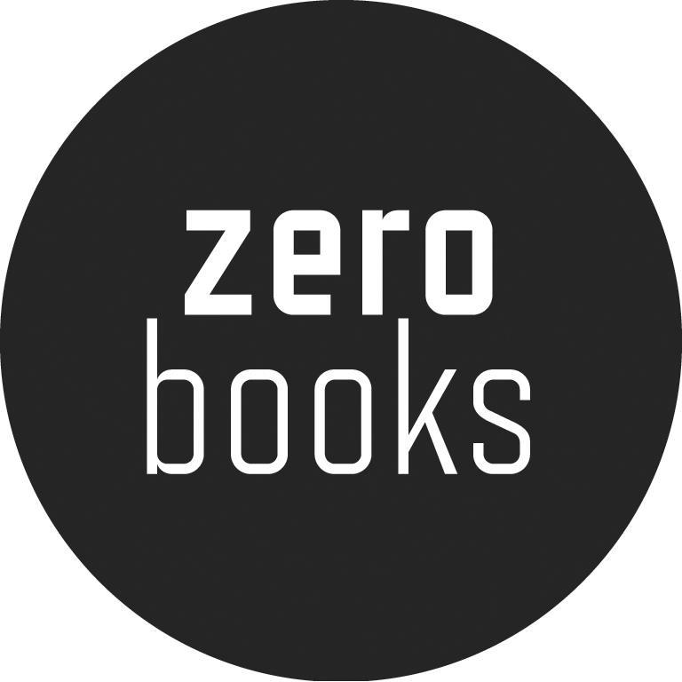 The logo of Zero Books